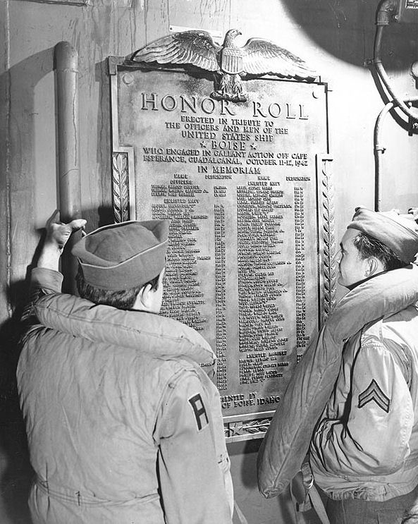 U.S. Army Private First Class Felix A. Uva (left) and Corporal Donald A. Purdy examine a memorial plaque on the main deck of the U.S. Navy light cruiser USS Boise (CL-47), while they were being transported to the United States from Europe as part of Operation "Magic Carpet" in November 1945. This plaque was presented to the ship by the citizens of Boise, Idaho (USA), in memory of the 107 crewmembers who lost their lives in the Battle of Cape Esperance, 11-12 October 1942. Note kapok life jackets worn by the soldiers.